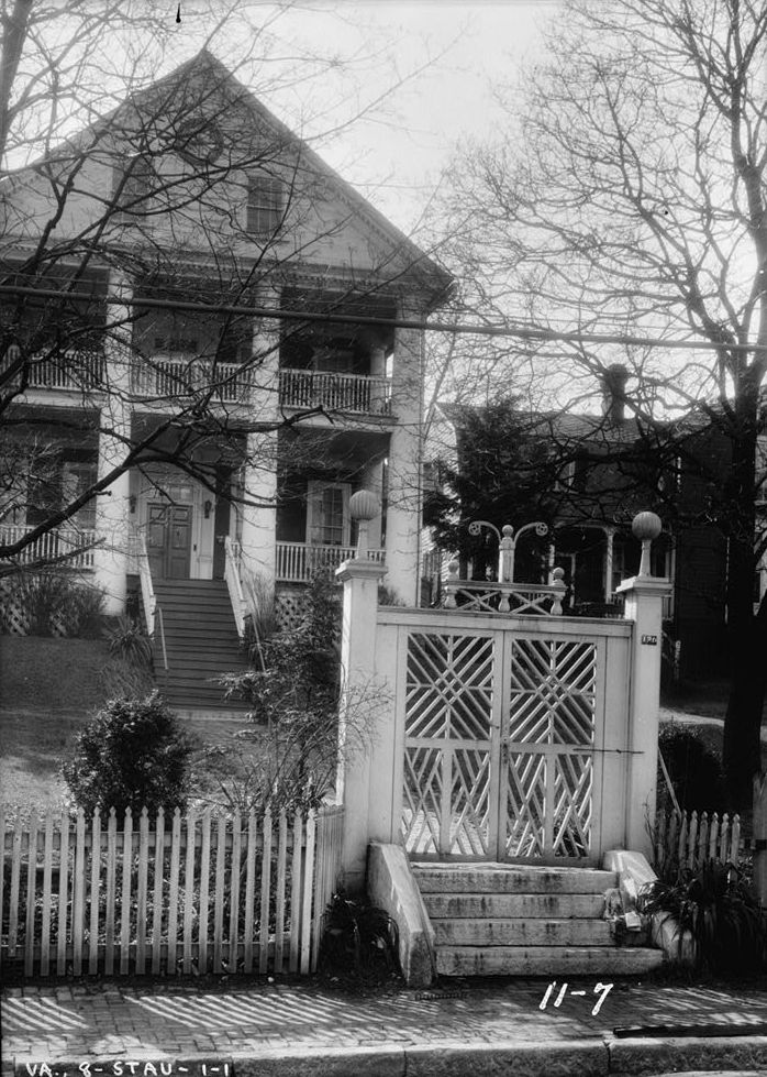 Stuart-Robertson House (Entrance Gates), 120 Church Street (Staunton County, Virginia) cropped, HABS VA,8-STAU,1-1 Designed by Thomas Jefferson Building/structure dates: 1791 initial construction